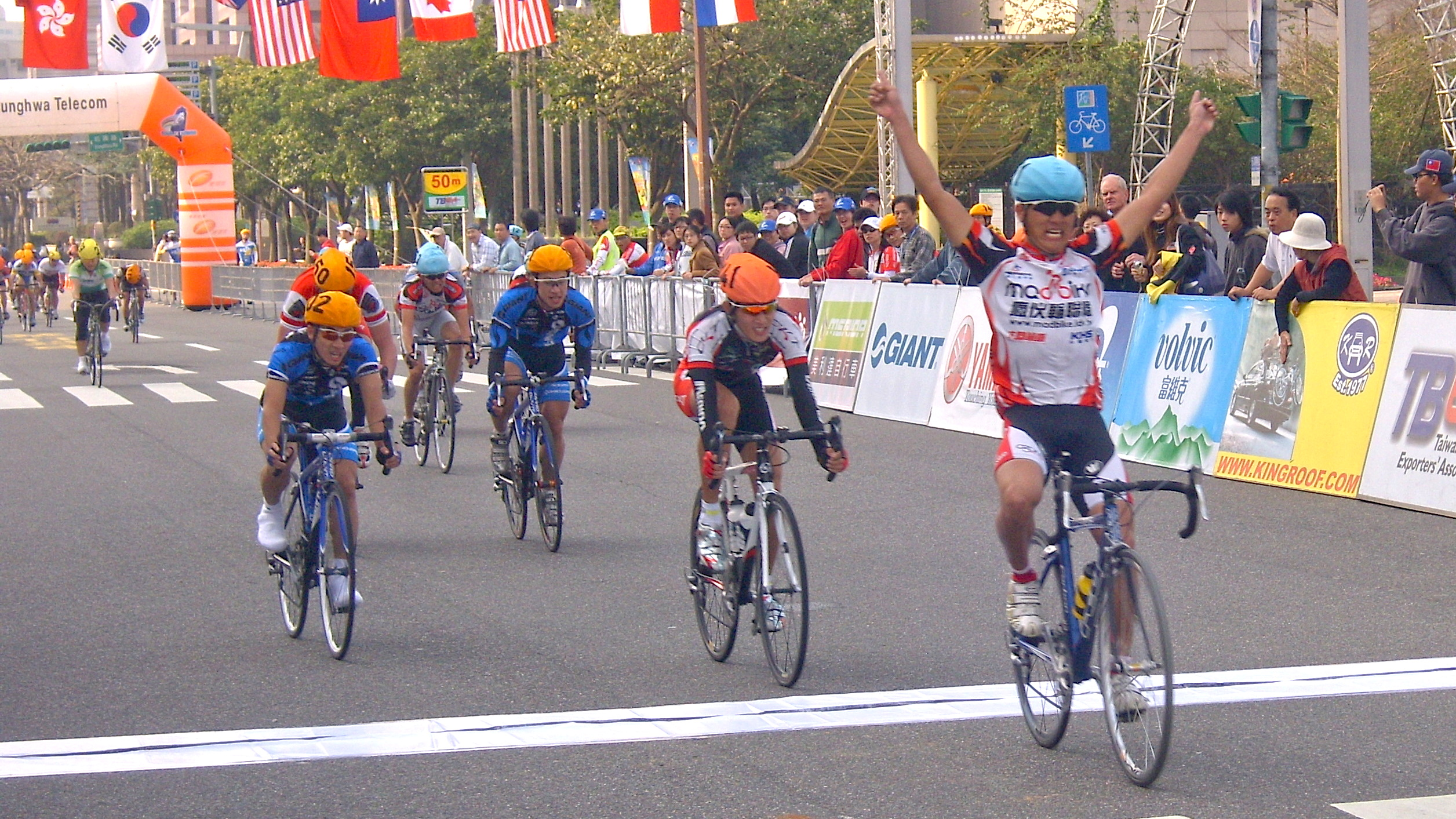 2008 Tour de Taiwan Stage 8: The 3rd Race for Citizens in Taipei.